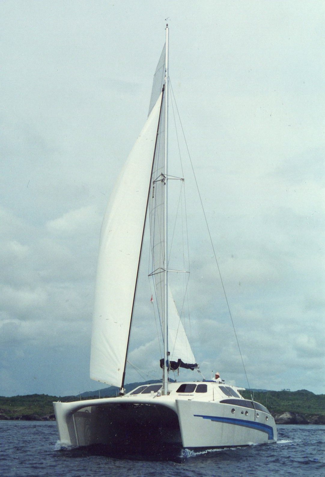 Brady 45' strip-built catamaran with fractional Bermuda rig